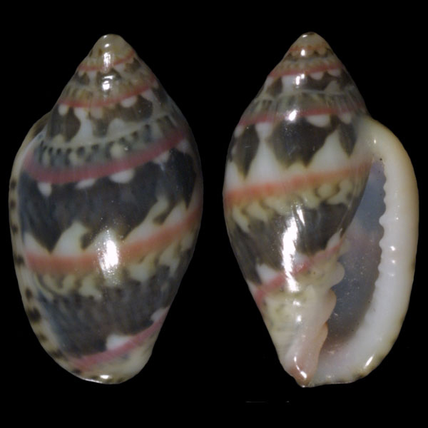 Species: Marginella liparozona Tomlin & Shackleford, 1913 Specimen: Luis Ferreira collection data: Annobón, Gulf of Guinea L 8,4mm